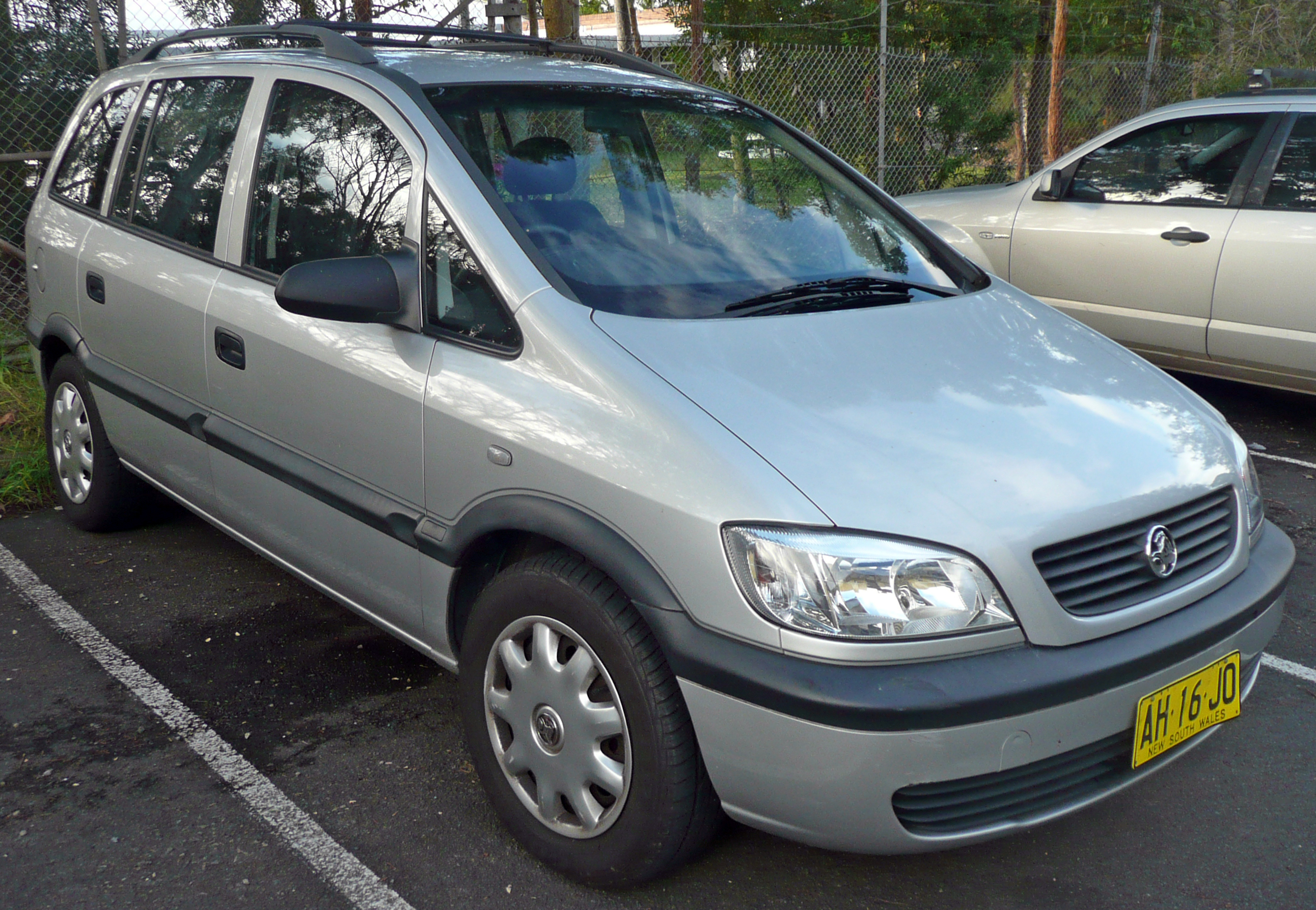 2001–2003 Holden Zafira (TT) van. Photographed in Loftus, New South Wales, Australia.